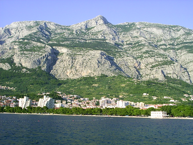 Biokovo mountains, Croatia